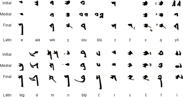 Old uyghur alphabet.